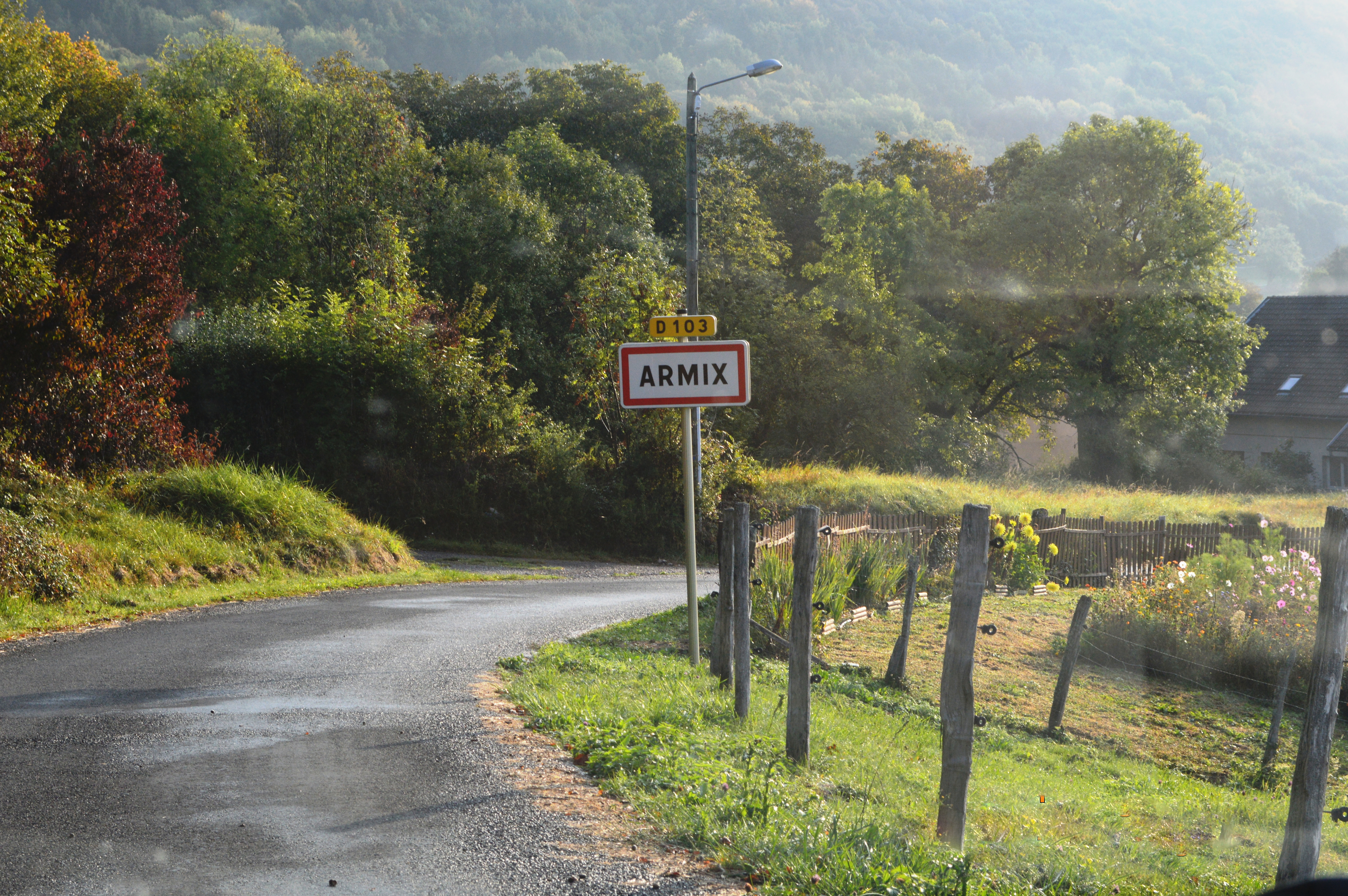 The entry to Armix